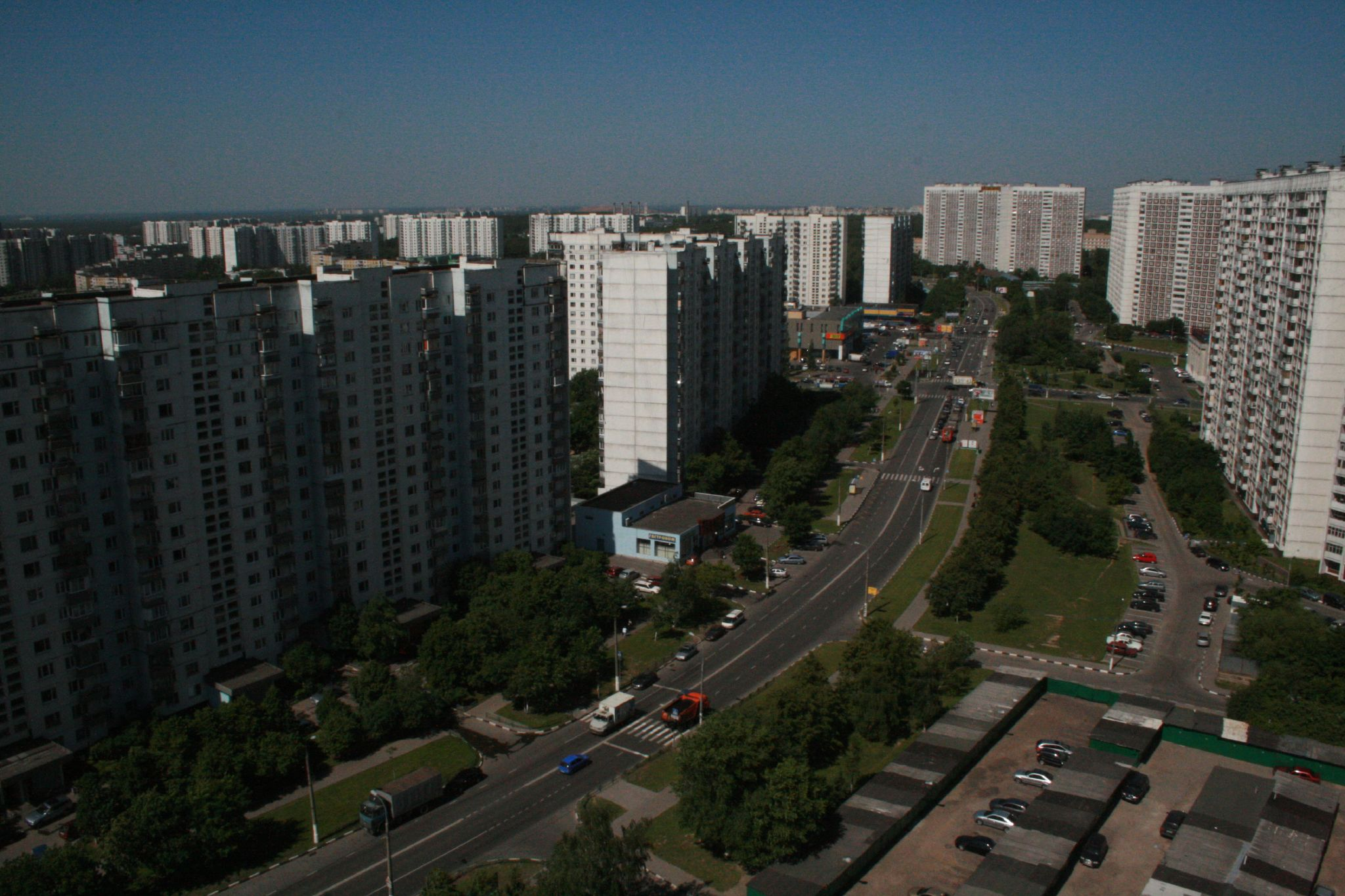 From the flat where I grew up, Yasenevo, Moscow